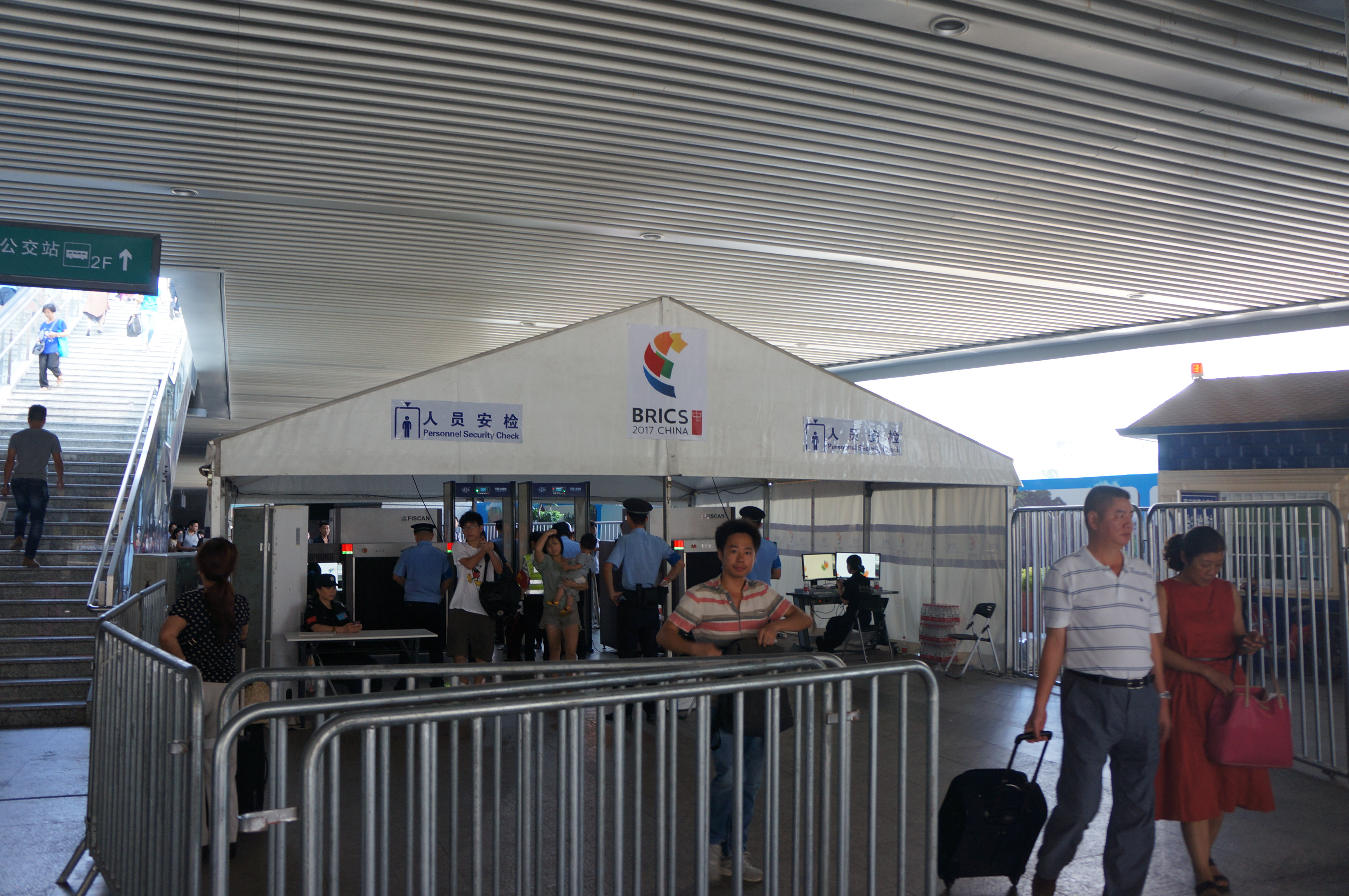 201708 Arrival inspection at Xiamen Station. No funeral scene captured here...